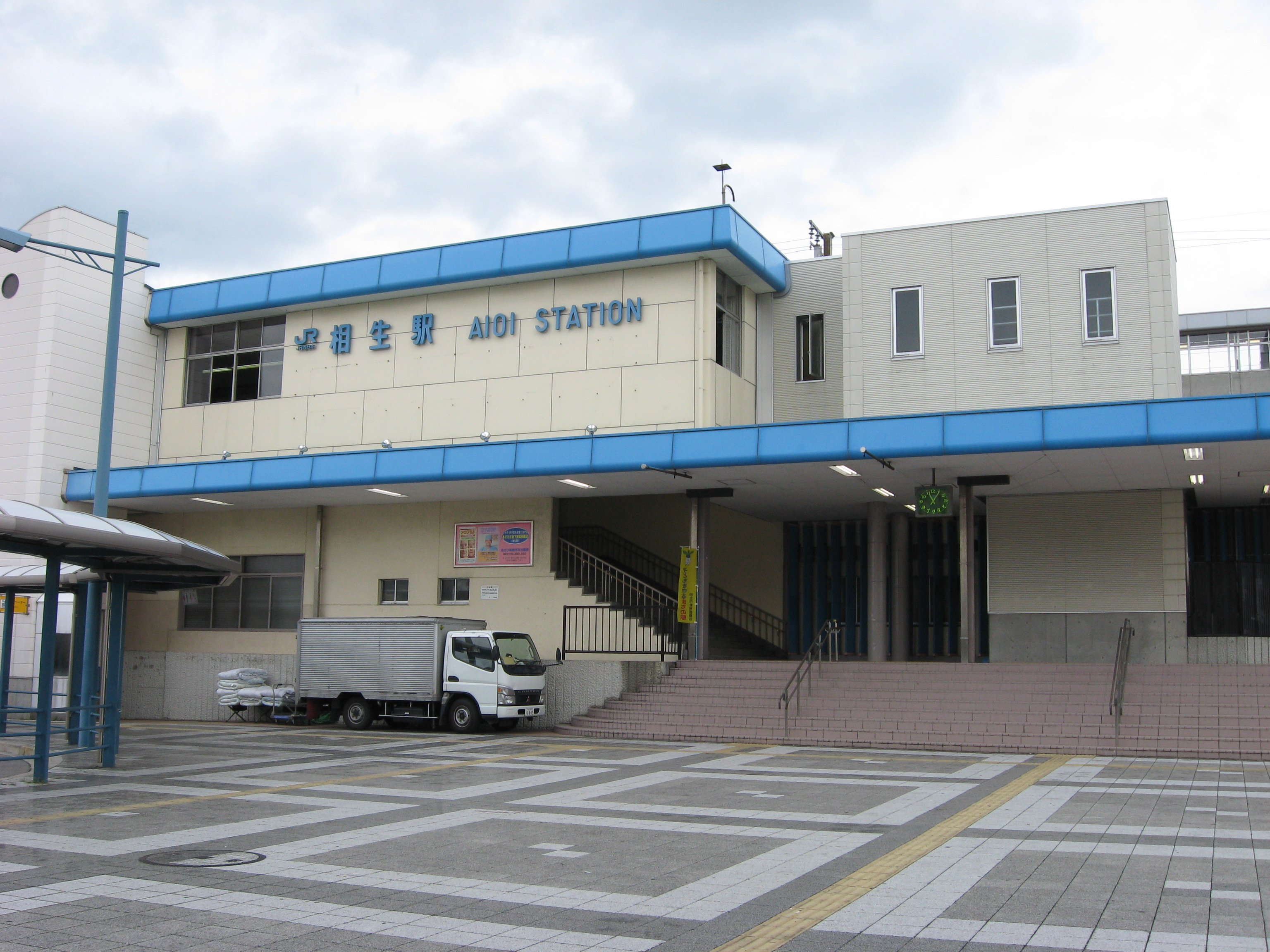 JR West Aioi Station South Gate